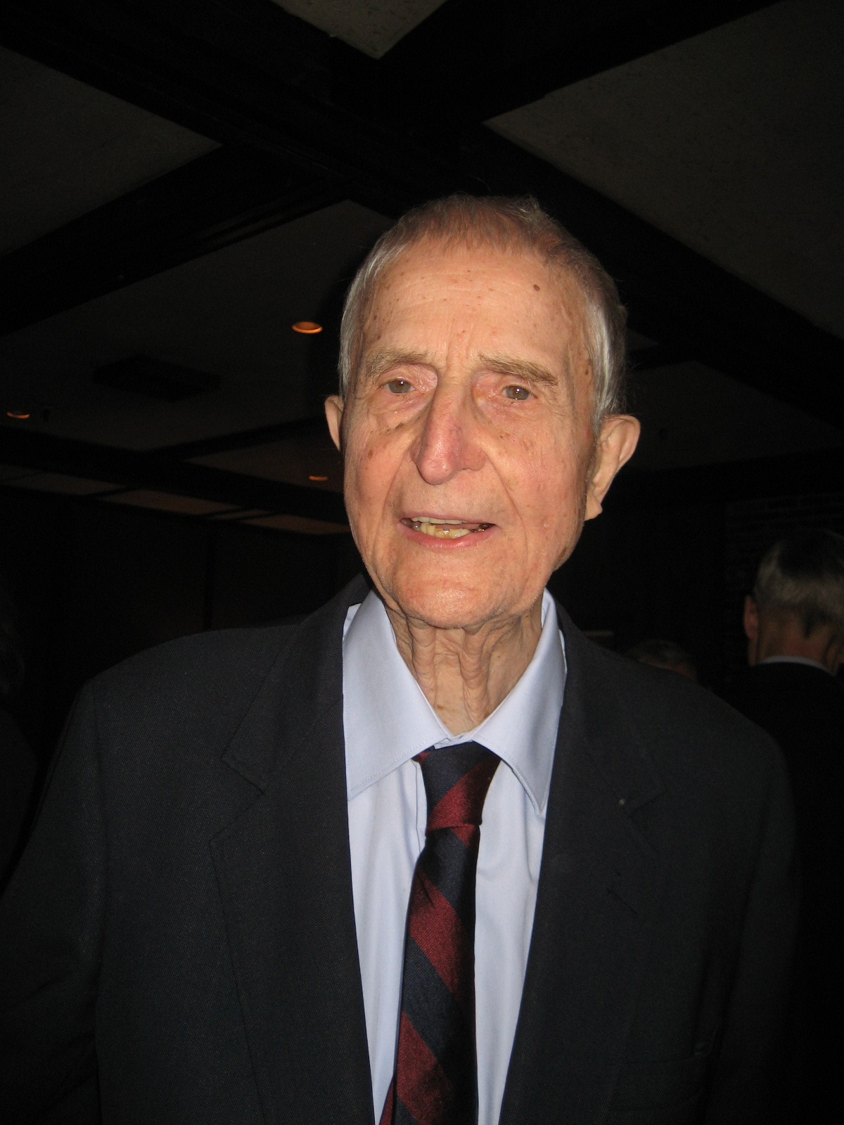 Eugene Patrick Kennedy at his 90th Birthday Celebration